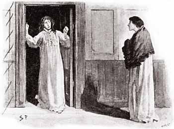 Illustration of the Sherlock Holmes short story The Speckled Band, which appeared in The Strand Magazine in February, 1892. Original caption was "HER FACE BLANCHED WITH TERROR."